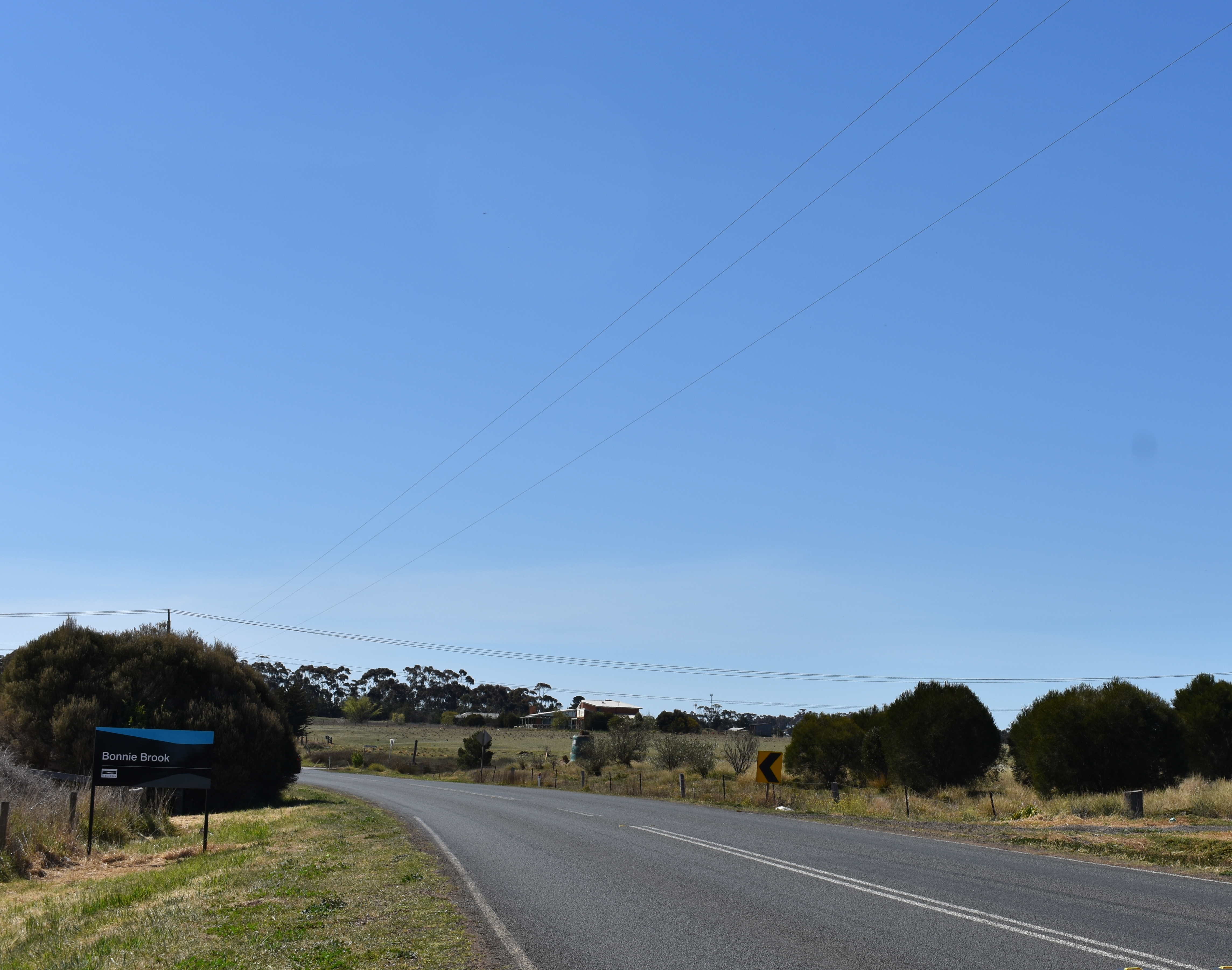 Locality entry sign on Leakes Road at Bonnie Brook, Victoria